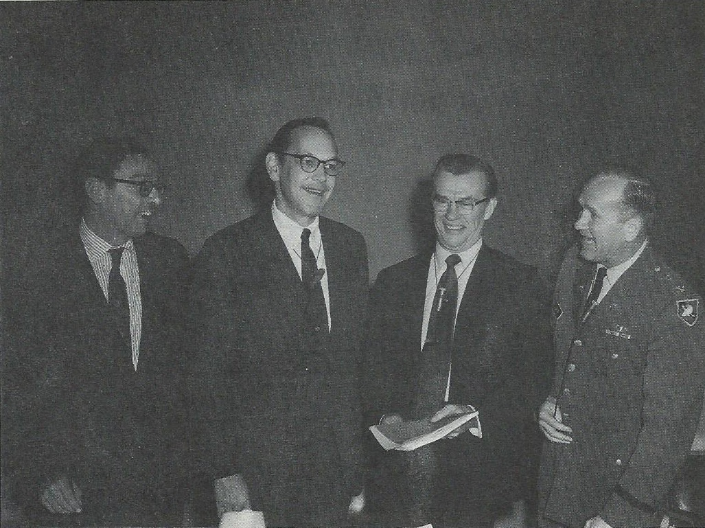 Following a panel discussion at the Student Conference on United States Affairs at the United States Military Academy at West Point, New York, the panelists confer. They are (left to right) syndicated columnist Joseph Kraft, U.S. Representative from Ohio Robert A. Taft, Jr., Professor Roger Hilsman of Columbia University, and Colonel Amos A. Jordan, Jr. of the United States Military Academy.